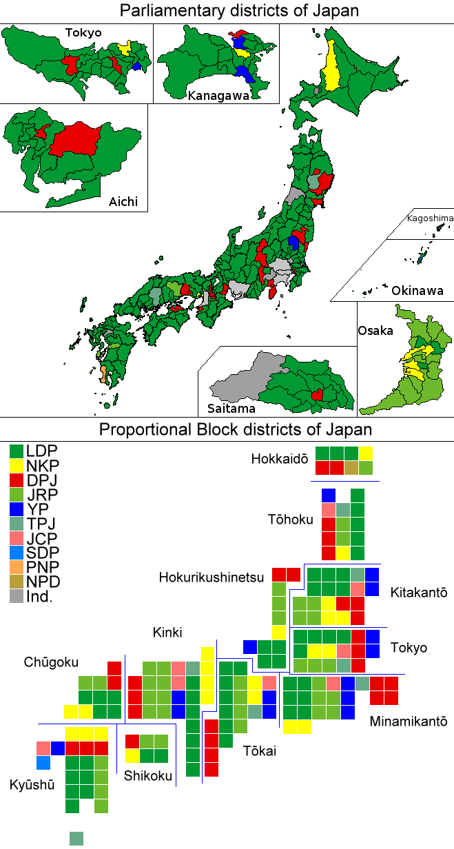 map of seats of Single member of Japanese general election, 2012